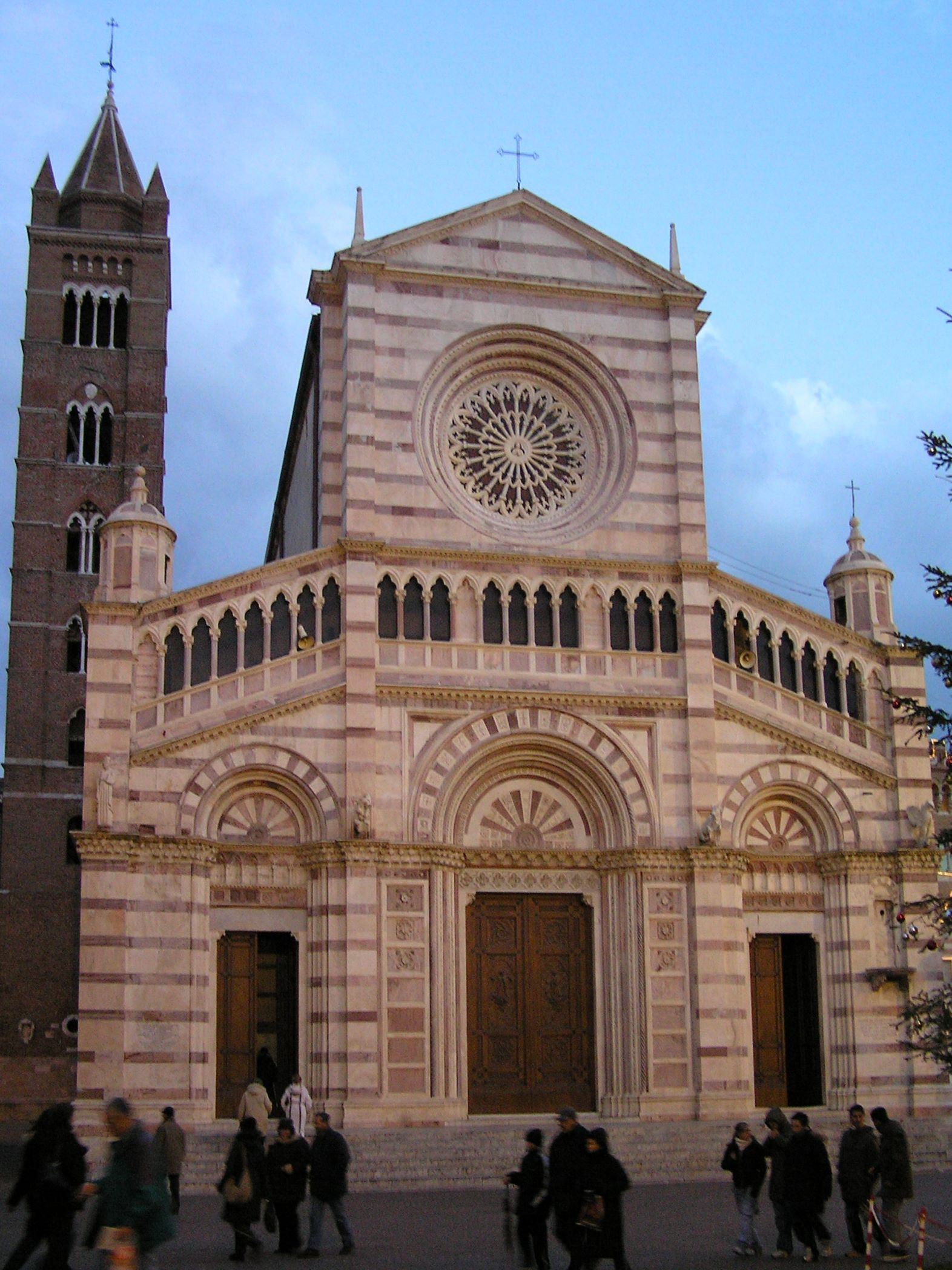 Description: Kathedrale San Lorenzo in Grosseto (Toskana, Italien) - Cattedrale di Grosseto Source: selbst fotografiert - photograph taken by the author Date: 28.Dec.2005 17:07 Author: Waugsberg